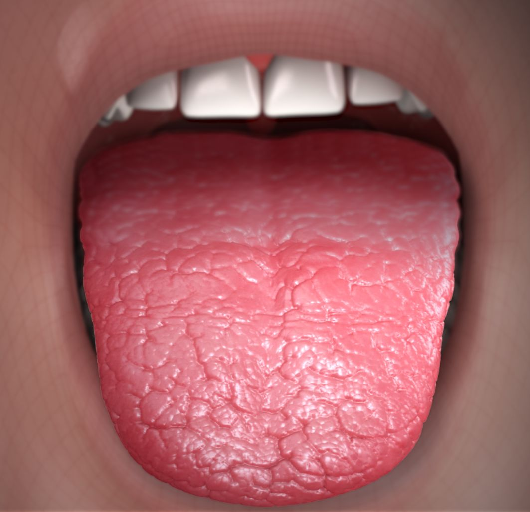 3D Medical animation still showing Dry Mouth condition.